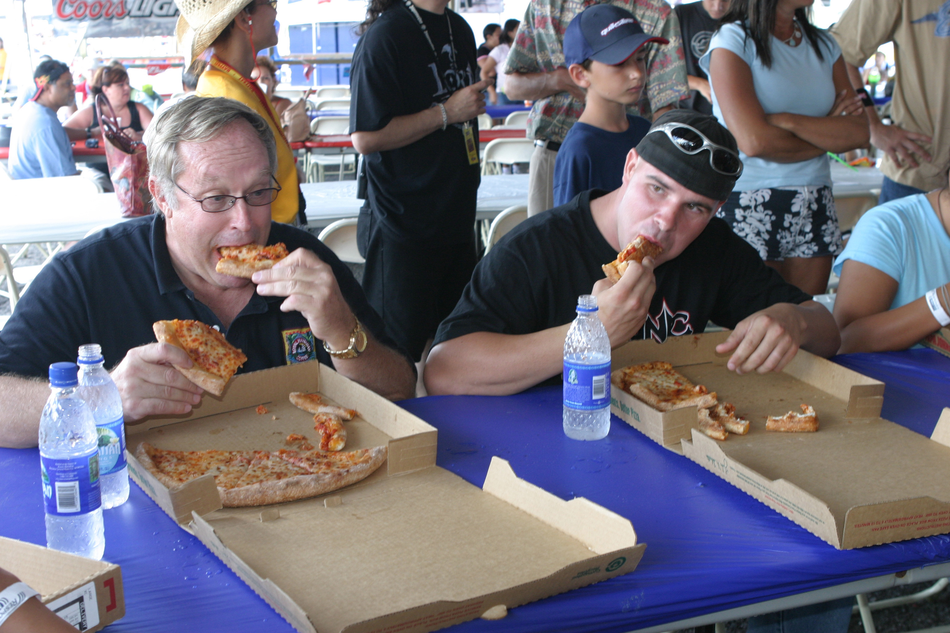 Lance Cpl. Brandon Allomong, Marine Aviation Logistics Squadron, (right) and fellow competior wolf down their pizza during one of the four Pizza Eating Contests at this years BayFest celebration. Allomong was the winner of this contest by managing to take down one whole pizza. He now has a year of free pizza from Papa John's Pizza.